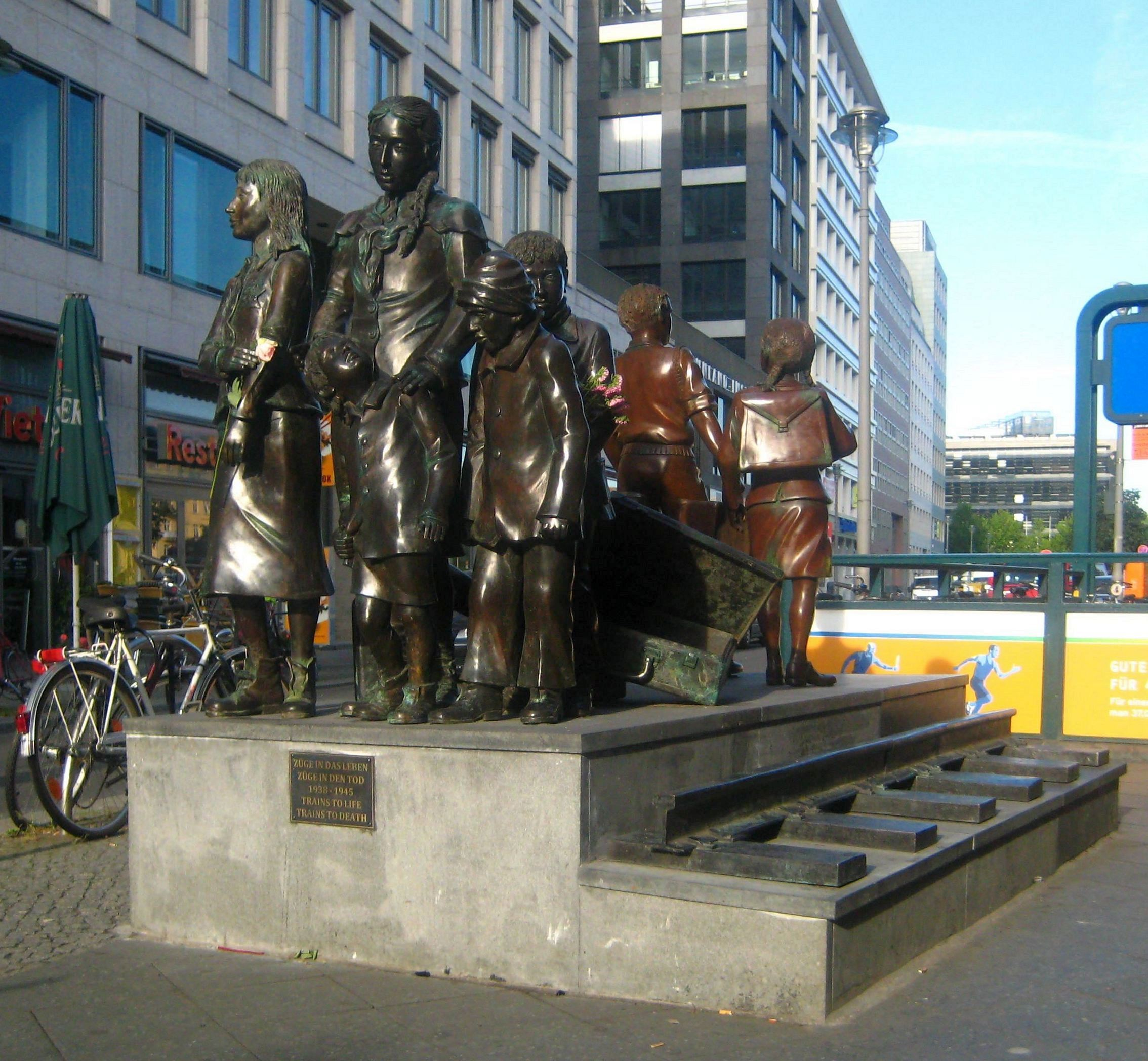 The memorial "Trains to Life - Trains to death: 1938-1939" on the Dorothea-Schlegel-Platz at the Friedrichstraße Railway Station in Berlin-Mitte. It remembers both the facts that 10.000 Jewish children were able to leave Berlin for England per railway before the start of WWII and that many other Jewish children were later deported to the extermination camps, also per railway. Two children stand for those saved, five children for those murdered. The sculpture was created by Israeli sculptor Frank Meisler, who was among those saved. A corresponding memorial is located at Liverpool Street Station in London. The memorial in Berlin was dedicated in November 2008.